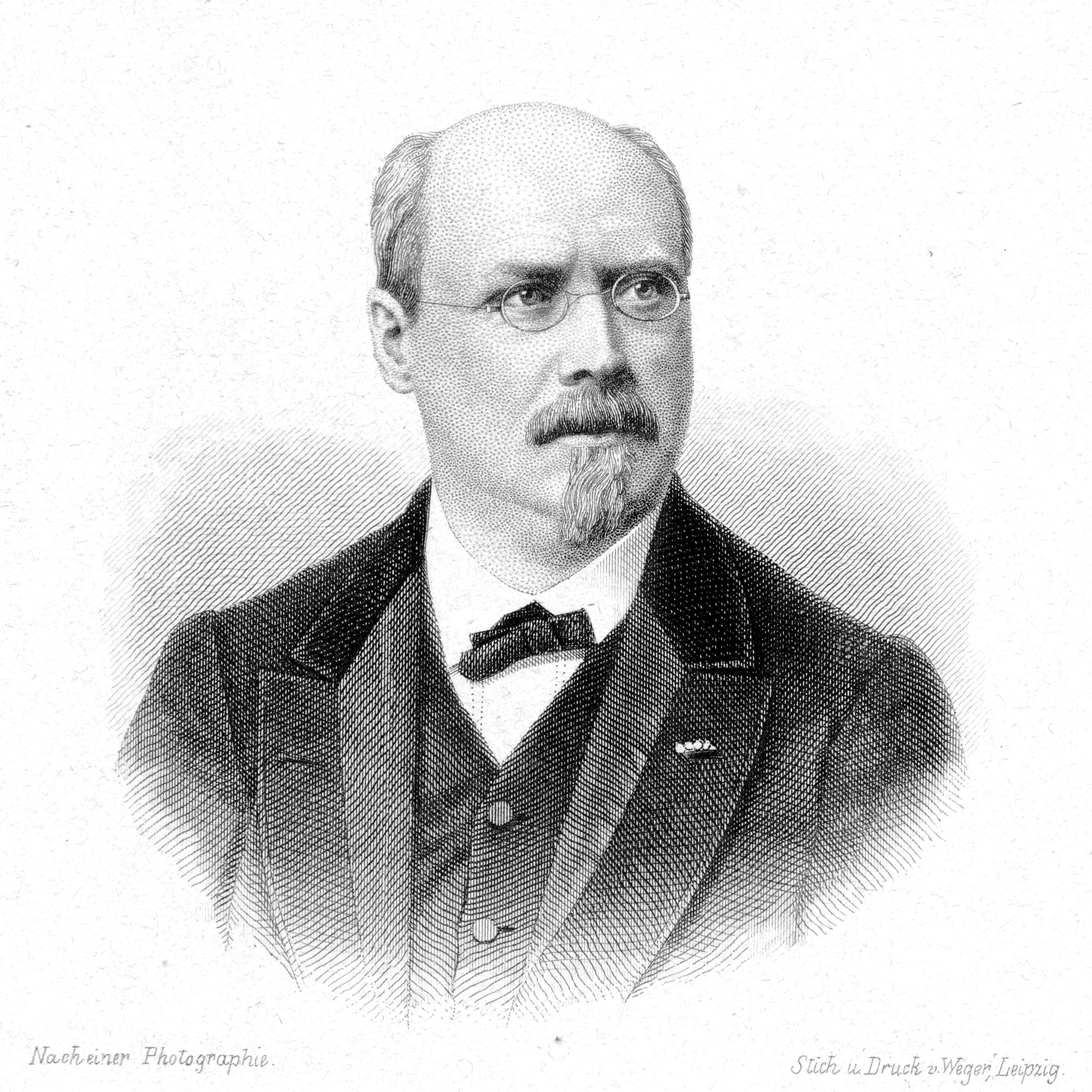 Portrait of Joseph Joachim Raff (1822-1882), Swiss composer, teacher and pianist